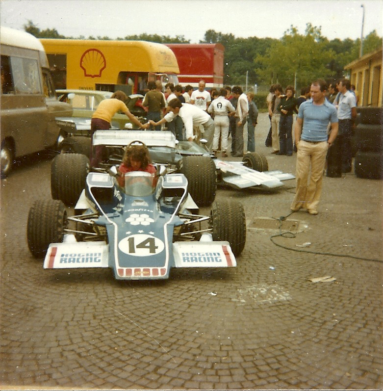 The Hogan Racing Lola T330, as driven by David Hobbs, Monza round of the 1974 Rothmans 5000 European Championship. Refer Rothmans F5000 Championship round, Monza, 30 Jun 1974